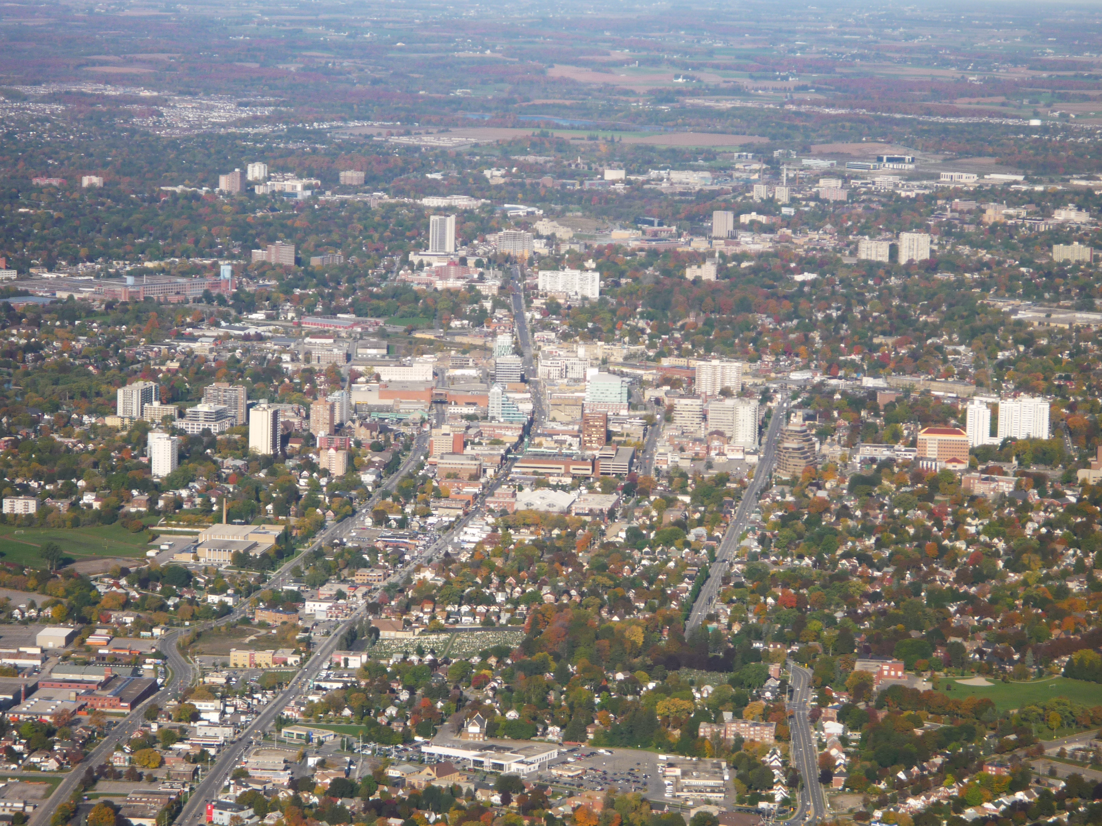 Aerial photo of downtown Kitchener, Ontario, Canada. It was taken from 2000 feet ASL, and looking north. Just after takeoff on VFR flight from Waterloo Regional airport. Photo was taken on in the fall. October 11, 2008.